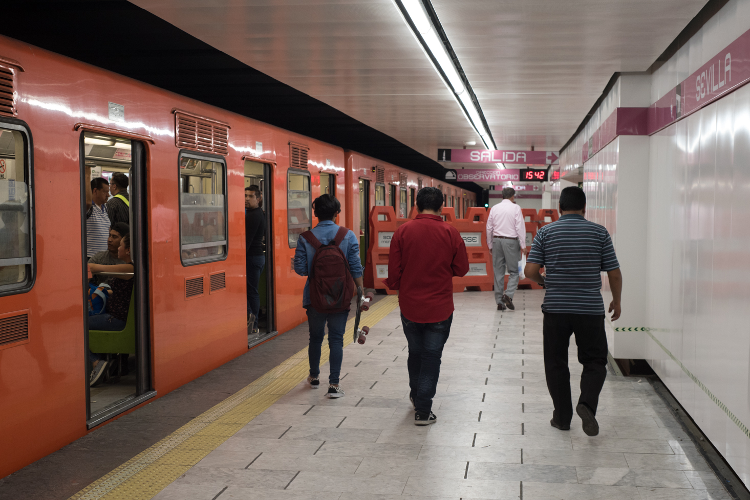 Platform of the Mexico City Metro Sevilla station